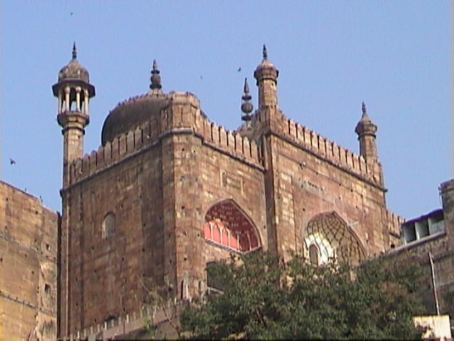 Hindu culture, have attributed supreme importance to the preservation of tradition Classical civilizations, and especially the Indian one, have attributed supreme importance to the preservation of tradition. Its central idea was that social institutions, scientific knowledge and technological applications need to use "heritage" as a "resource". Using contemporary language, we would say that ancient Indians considered, as social resources, both economic assets (like natural resources and their exploitation structure) and factors promoting social integration (like institutions for preserving knowledge and maintaining civil order). Ethics considered that what had been inherited should not be consumed, but should be handed over, possibly enriched, to successive generations. This was a moral imperative for all, except in the final life stage of sannyasa